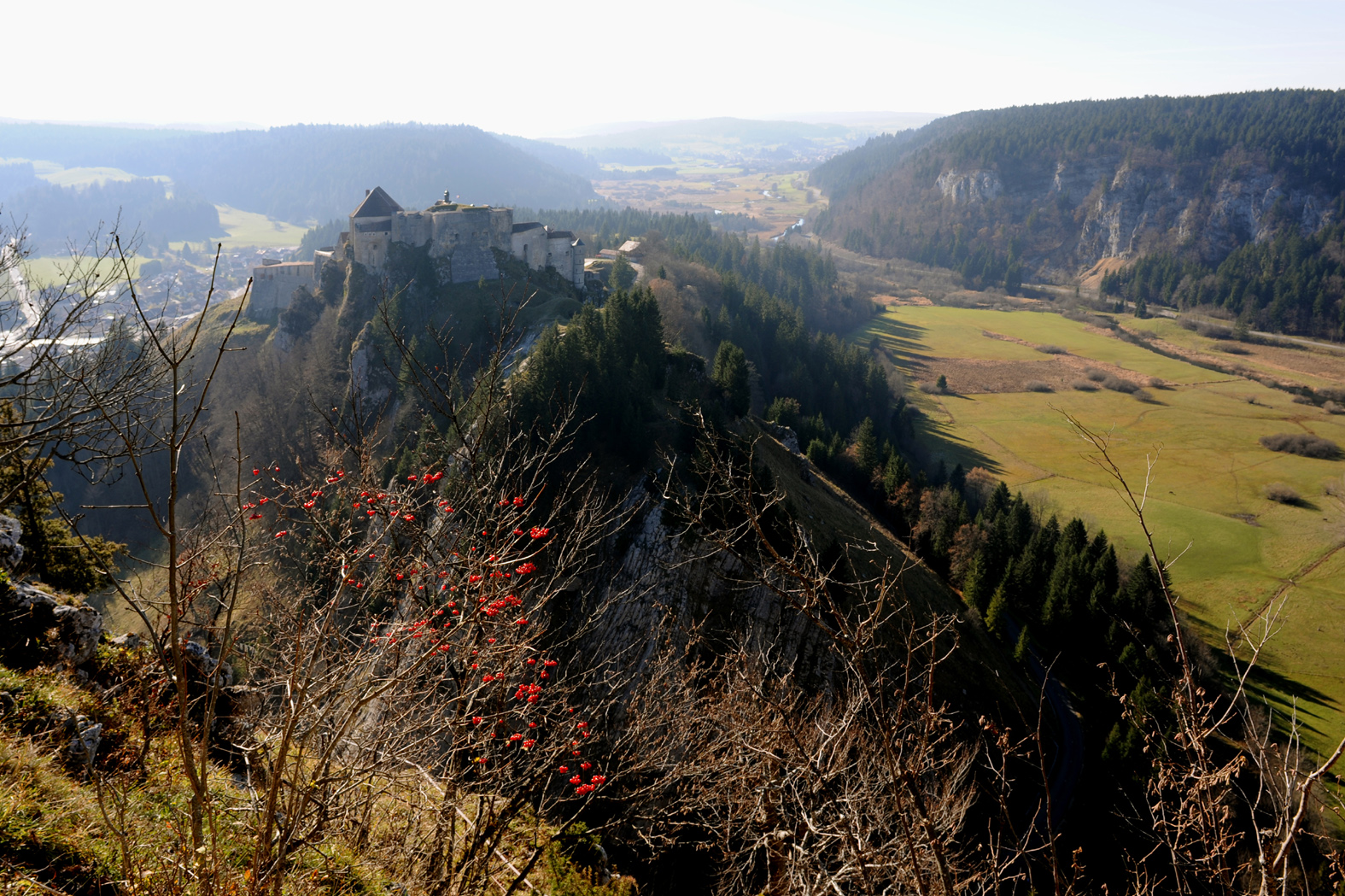 Château de Joux, view from fort Mahler; Doubs, Franche-Comté.